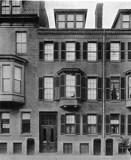 110 Charles Street, Boston, Massachusetts. This house was the home of Massachusetts Governor John Albion Andrew.